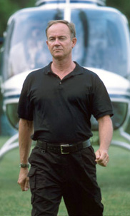 Eric L. Haney, original image cropped to remove matte and optimize size for article.